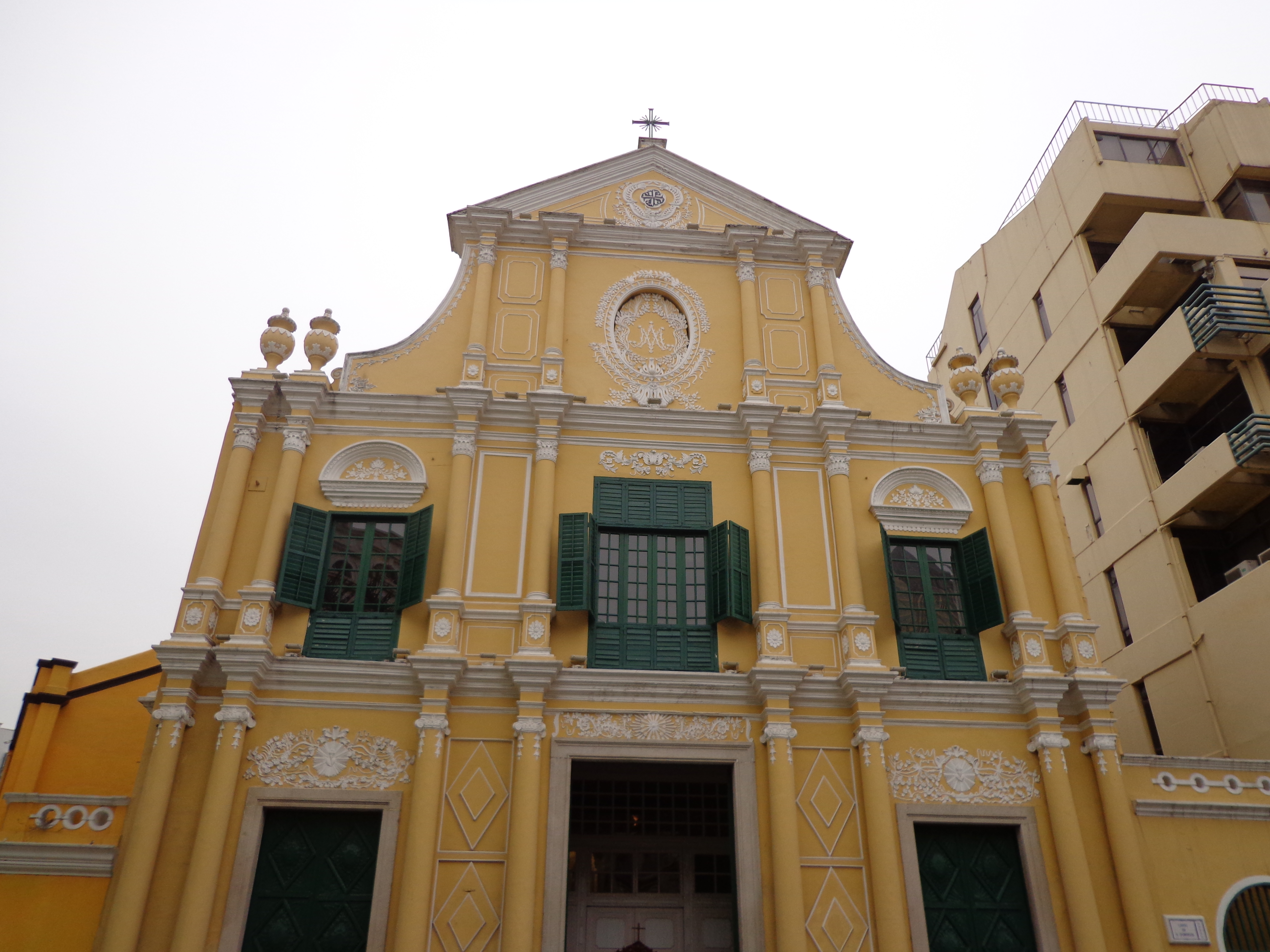 St. Dominic's Church is a late 16th century Baroque-style church that serves within the Cathedral Parish of the Roman Catholic Diocese of Macau.